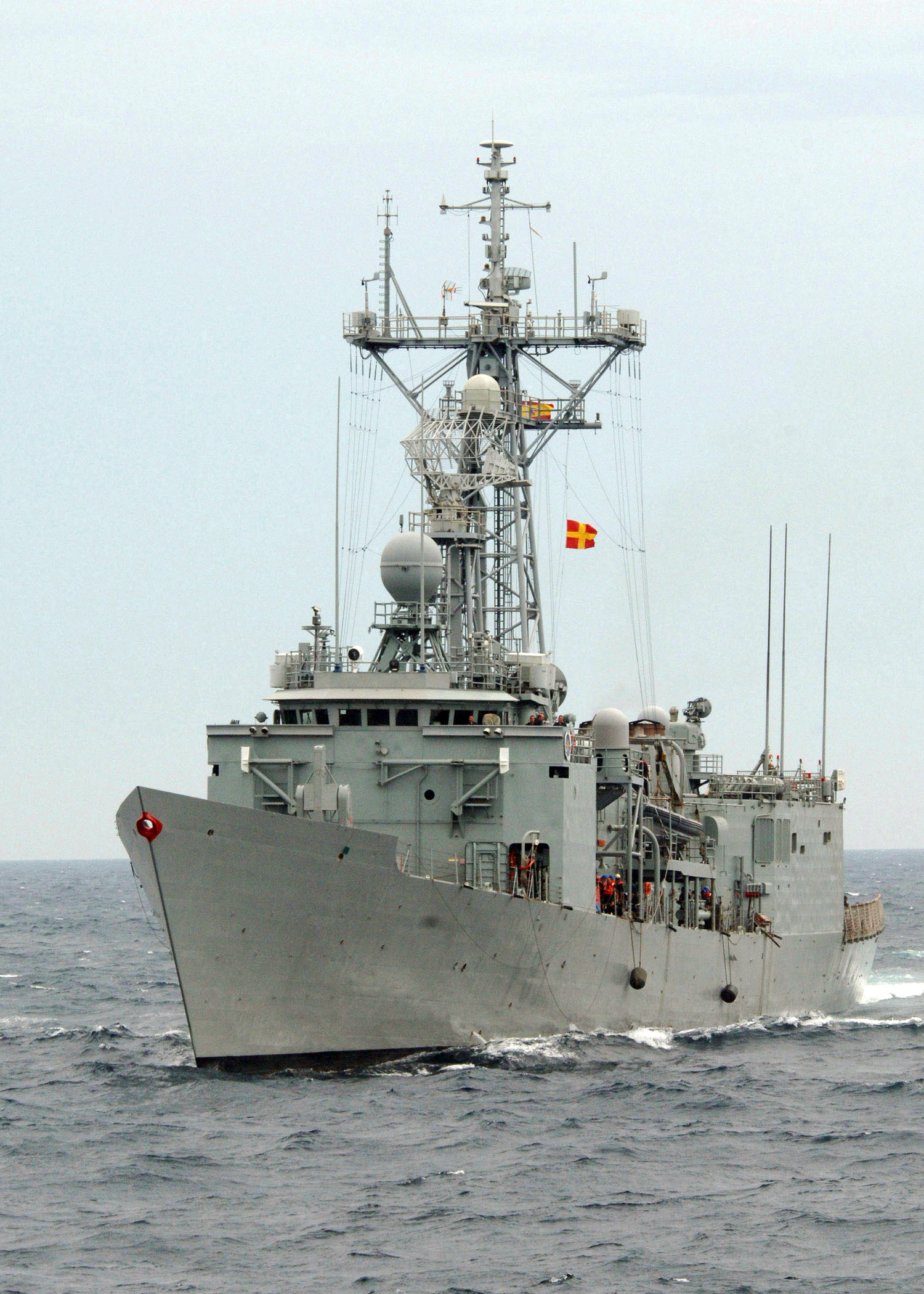 The Spanish frigate SPS Santa Maria (F 81) prepares to conduct a replenishment at sea (RAS) off the coast of Brazil. Naval forces from Argentina, Brazil, Spain, Uruguay and the United States are participating in UNITAS 47-06 Atlantic phase. This is a U.S. Southern Command-sponsored exercise that enhances friendly, mutual cooperation and understanding between participating navies by enhancing interoperability in naval operations among the nations of the Western Hemisphere.